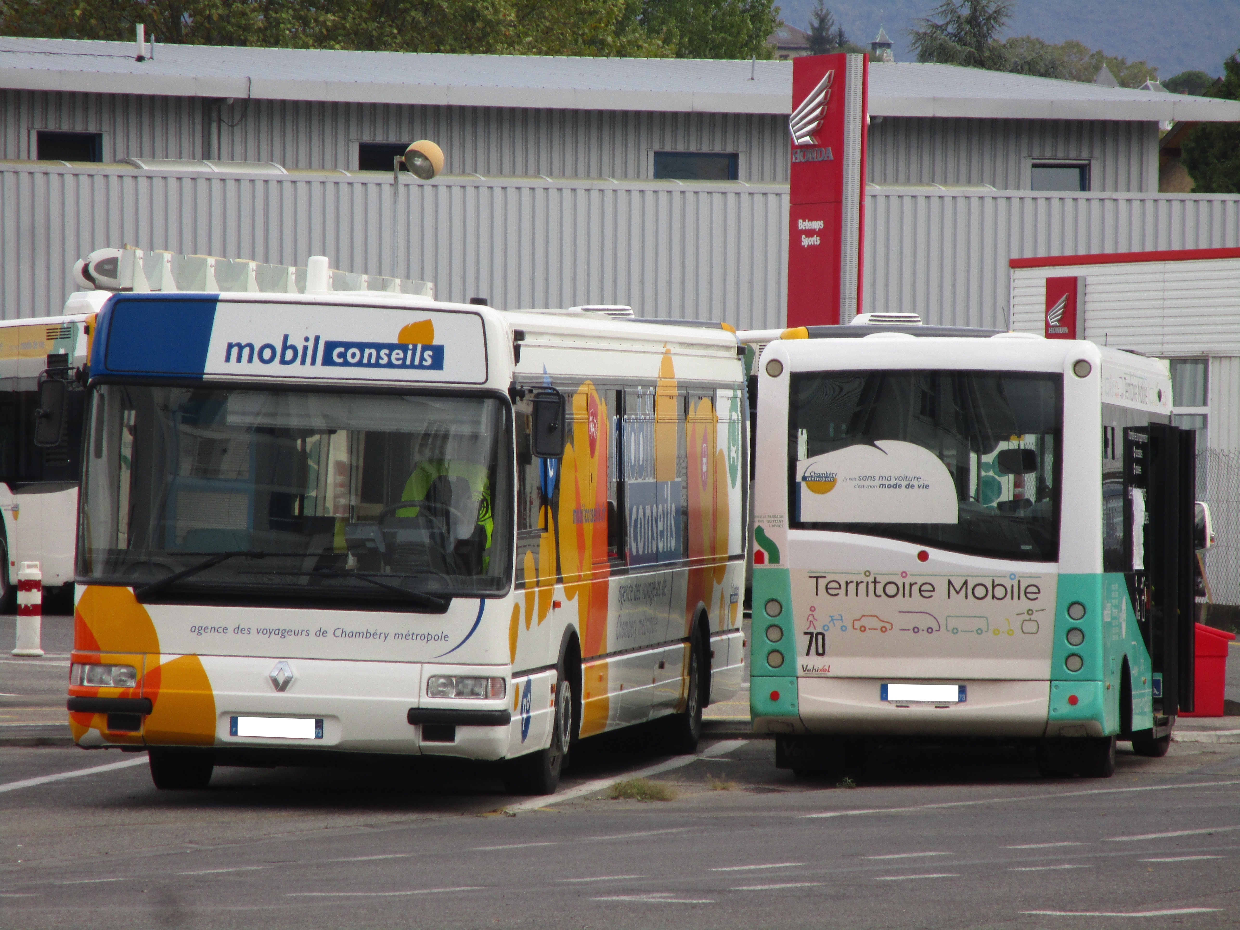 Two bus of the STAC, the Renault Agora S use as mobile agency and the Mercedes-Benz Vehixel Cytios 3 n°1057 in a special livery for the information campaign about the new bus network of Chambéry, Territoire Mobile, at the yard in Chambéry on September 15, 2016.